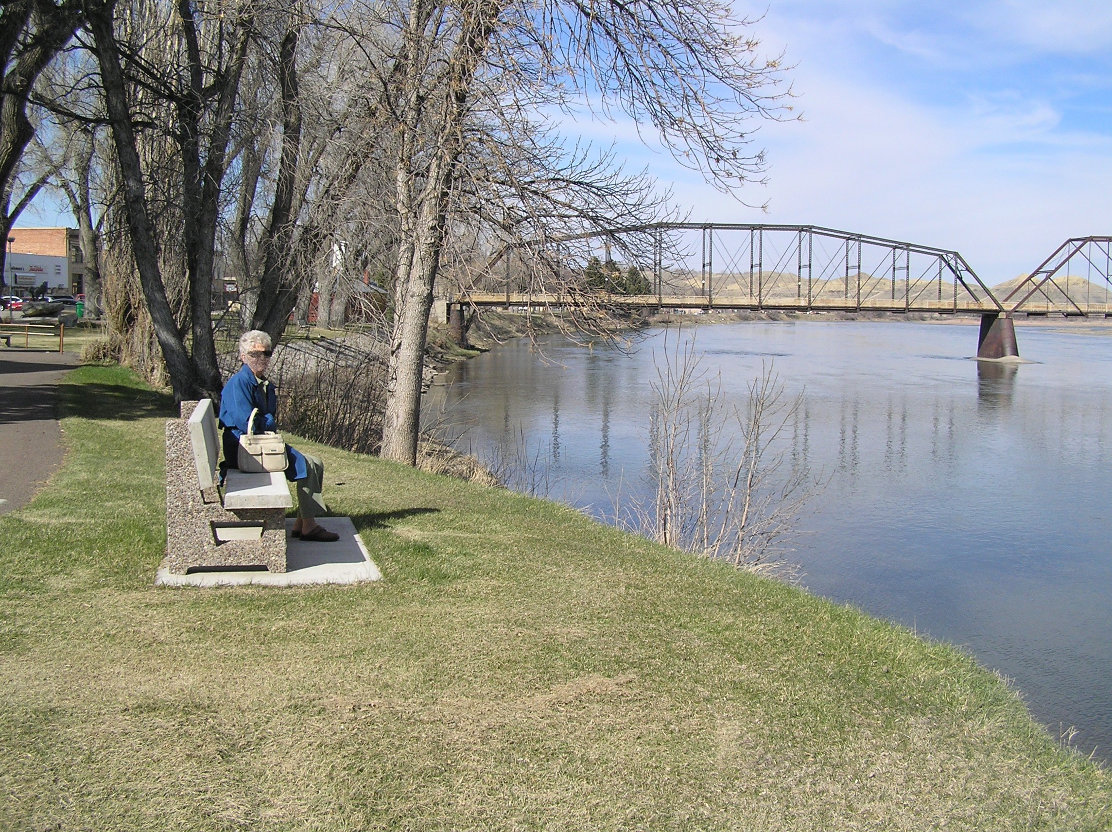 Missouri River and bridge as seen from town park near Grand Union Hotel, Fort Benton, Montana